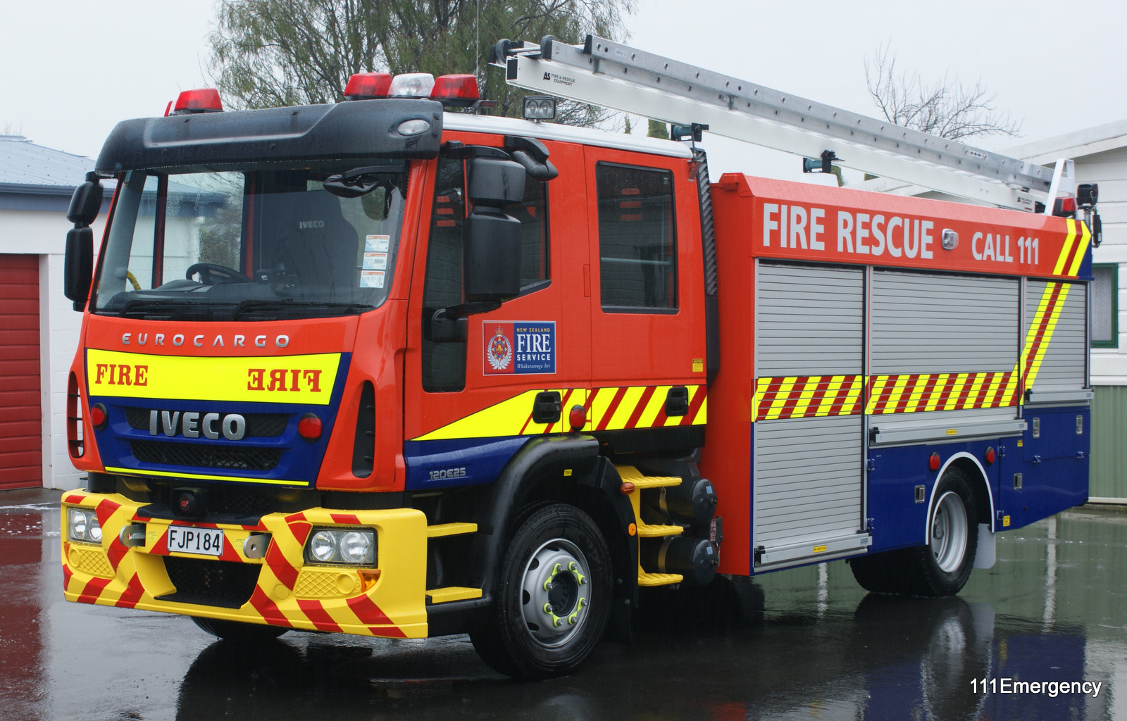 Greytown 647 - Type 2 Iveco Pump Rescue Tender